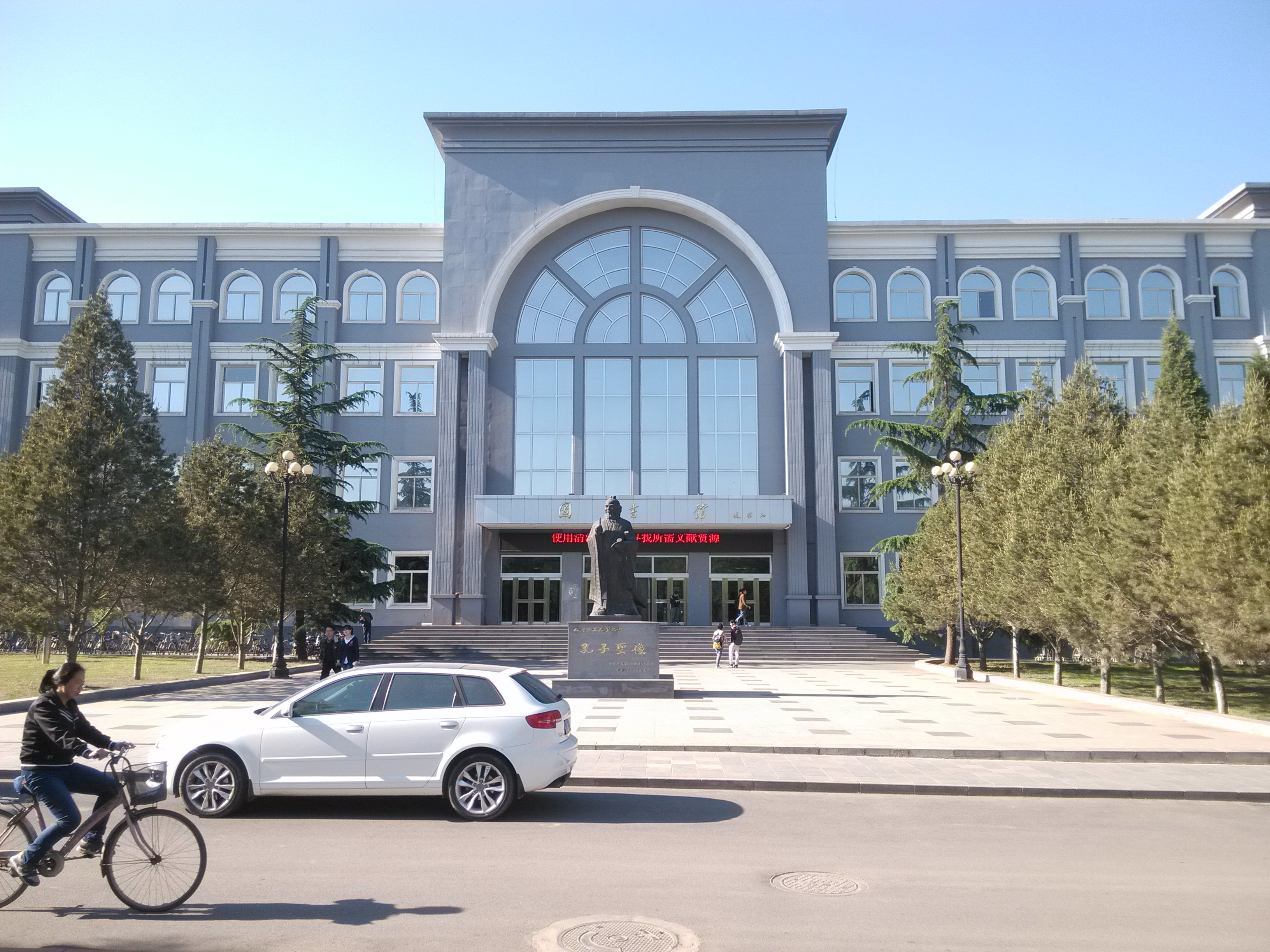 Taiyuan University of Technology Yingxi Campus Library.